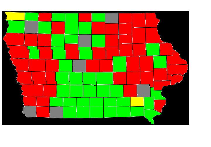 Iowa caucus results by county